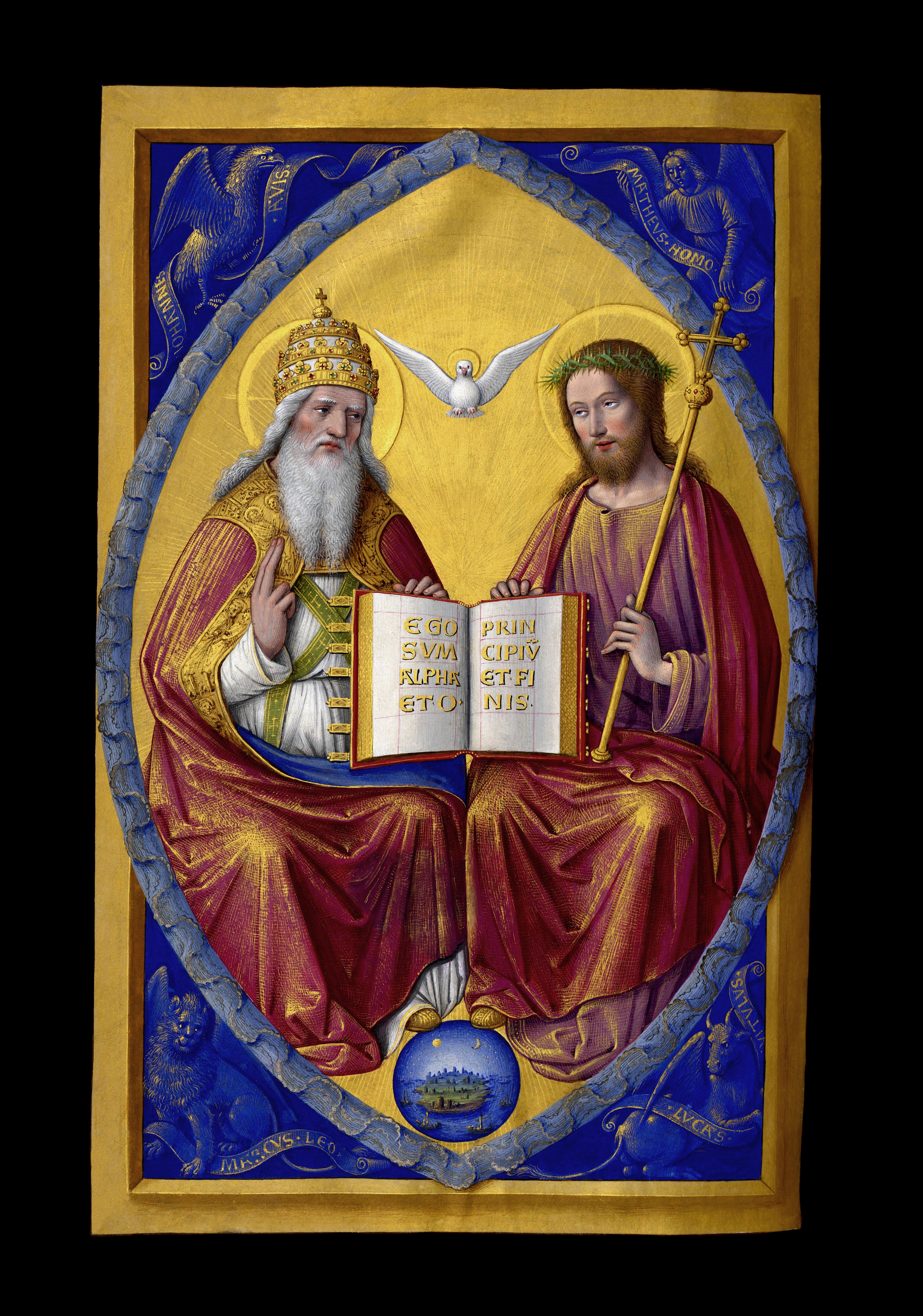 God the Father on left, Jesus on right, holding book with seven seals open to Alpha and Omega passage, dove of Holy Spirit in center, "animal" symbols of Four Evangelists in corners.